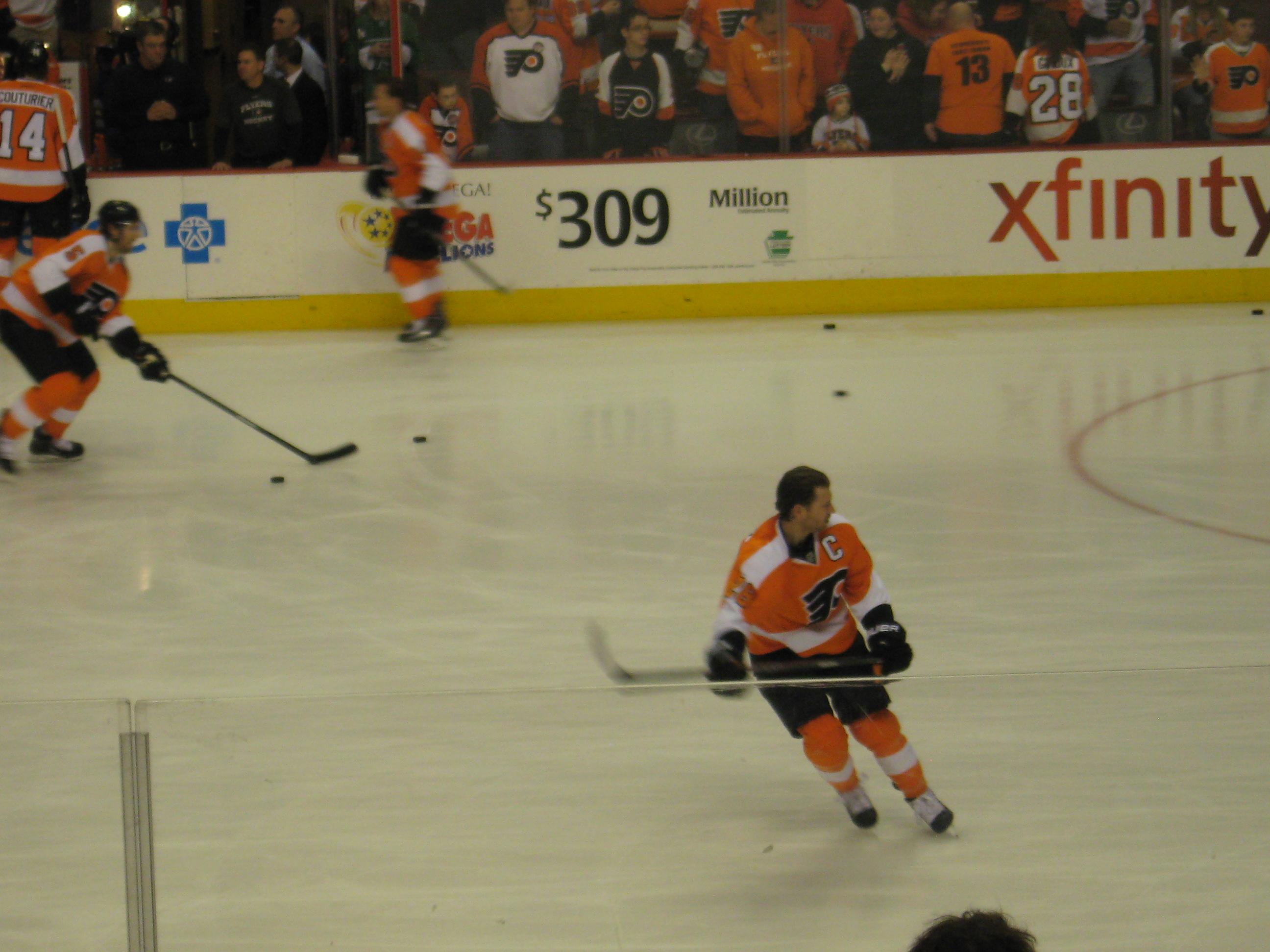 Wells Fargo Center in 2014